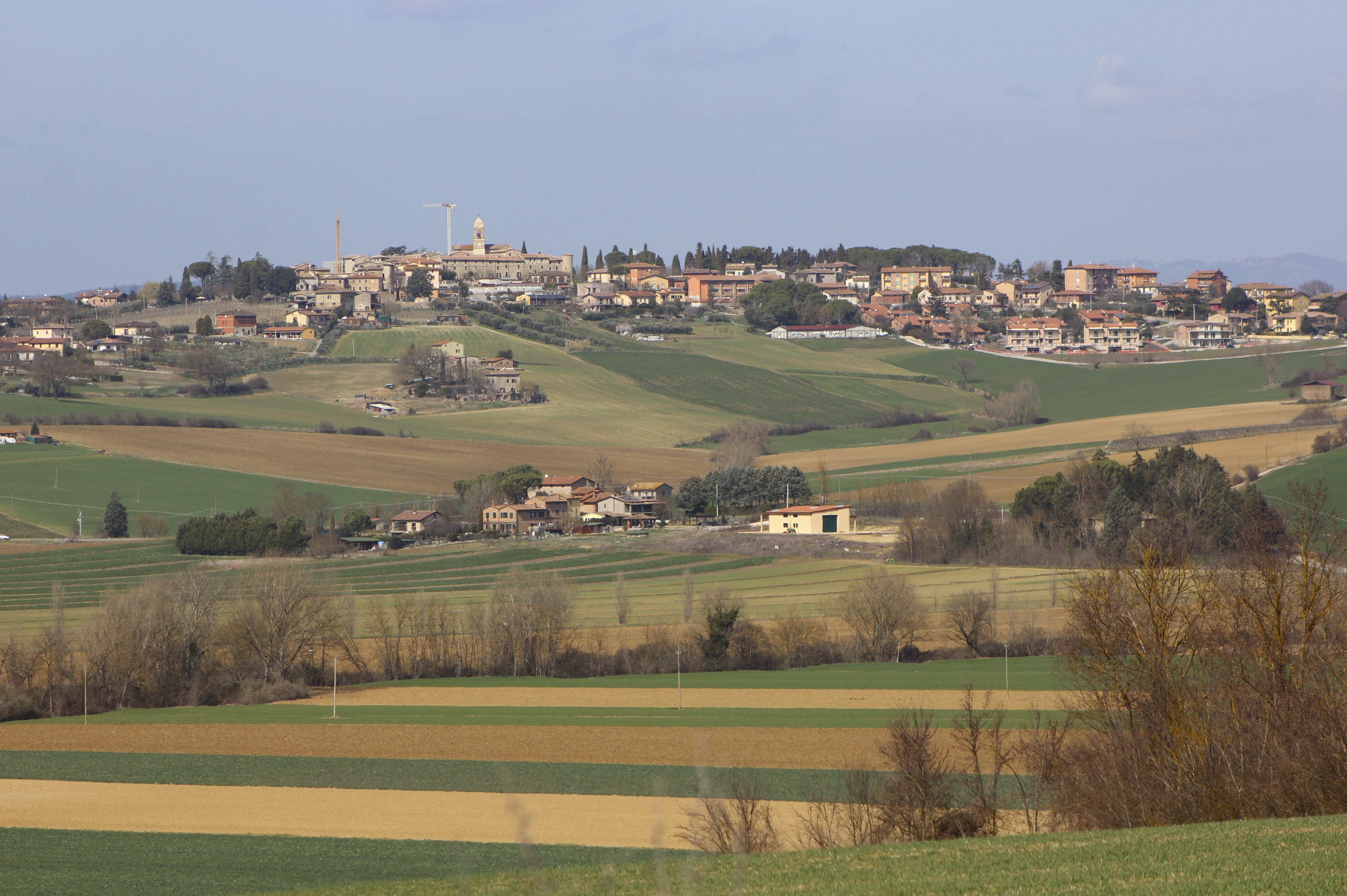 Spina, hamlet of Marsciano, Province of Perugia, Tuscany, Italy